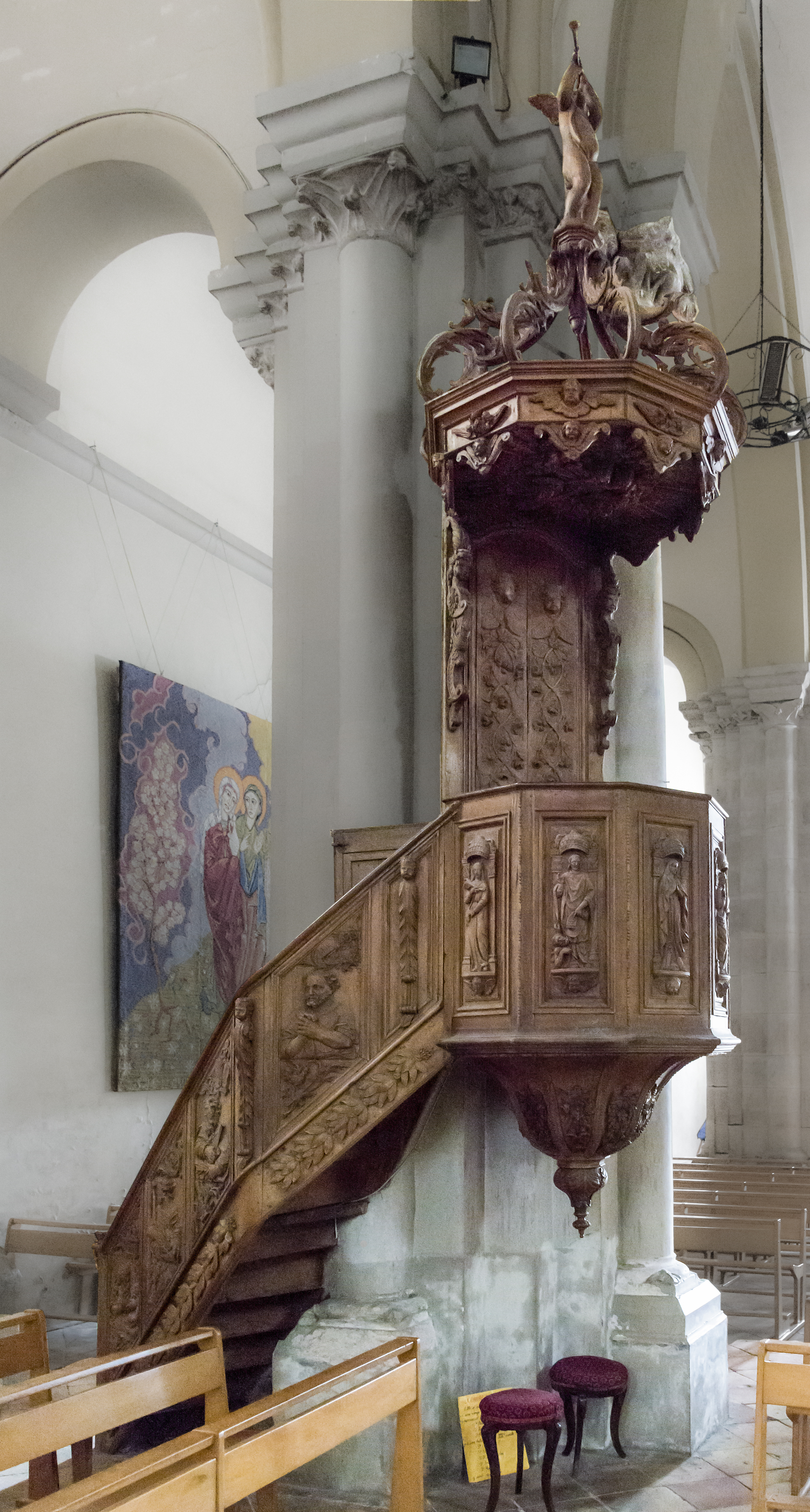 Castelsarrasin Tarn-et-Garonne, France - The pulpit of the seventeenth century from the Abbey of Belleperche.